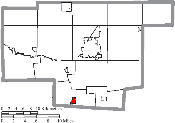 Map of the municipal and township boundaries of Marion County, Ohio, United States, as of the 2000 census, with the location of the village of Prospect highlighted. Township borders are shown only in unincorporated areas in order to differentiate incorporated and unincorporated areas more clearly.